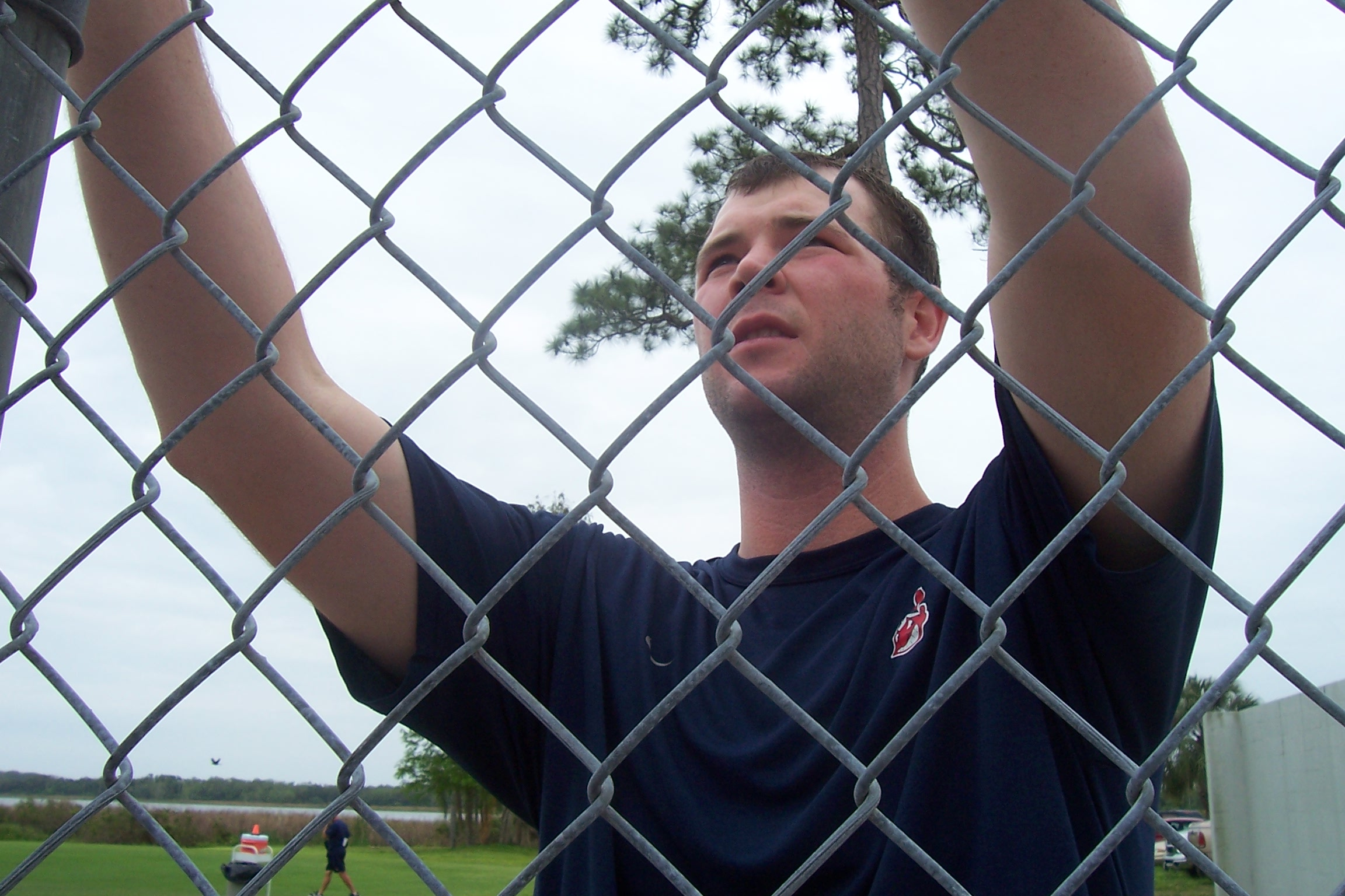 Photo by ^_^, 22 March 2008 Tom Mastny at Indians' Spring Training 2008 in Winterhaven, Florida. He's signing autographs for fans while on his way to working out at the Minor League Clubhouse. Donshin